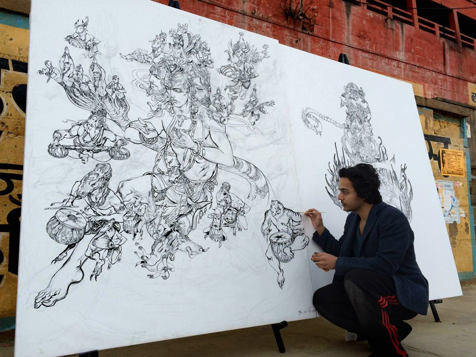 Abhishek Painting live at the ghats of Varanasi, India.